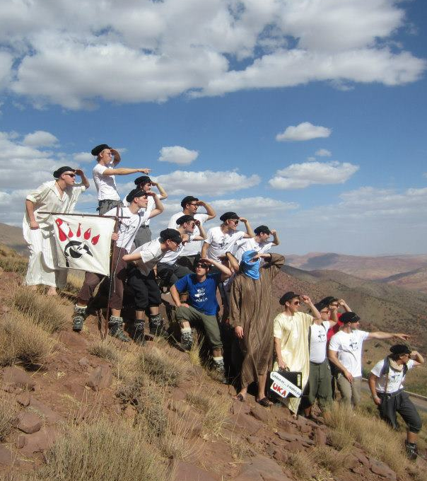 Pirum